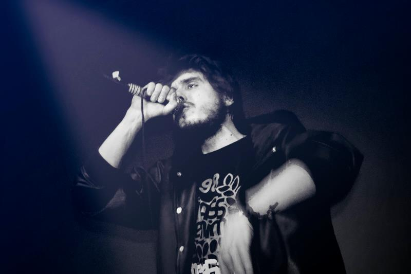 Polish rapper Miuosh, 2012